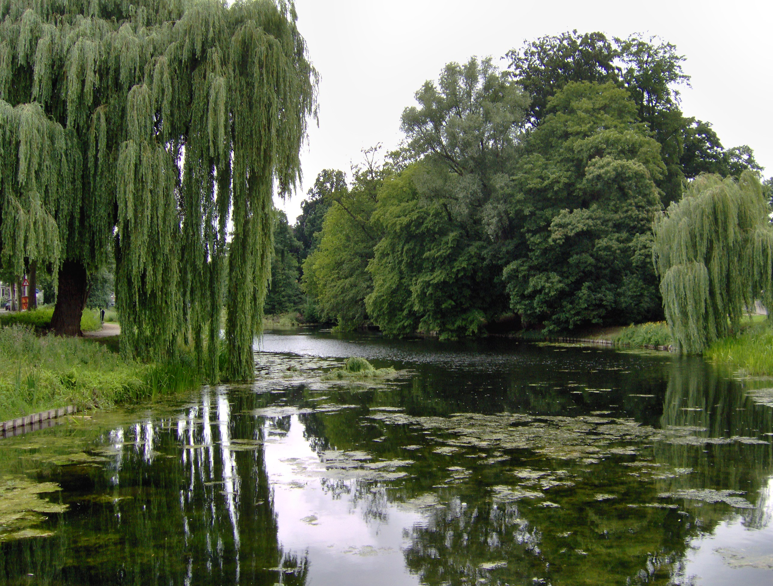 The Rijsterborgherpark near Deventer Central Station